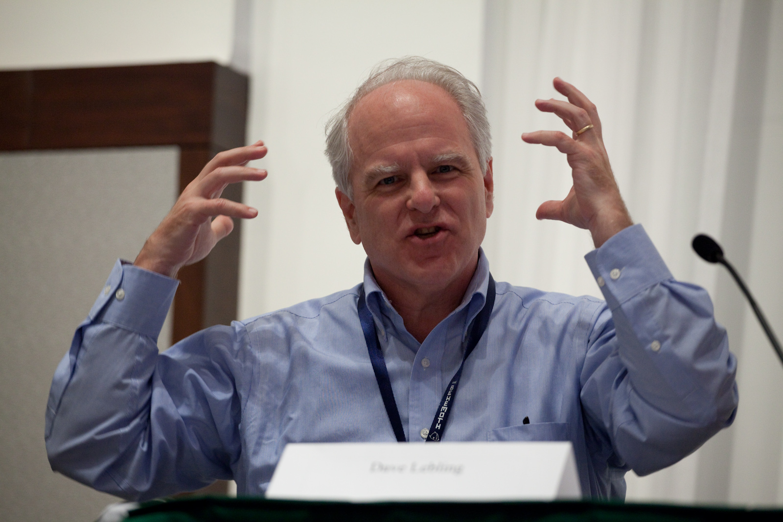 Computer programmer and interactive fiction designer Dave Lebling, author of Zork, Suspect, Lurking Horror, and other Infocom titles, at an interactive fiction meetup at PAX East, Boston.